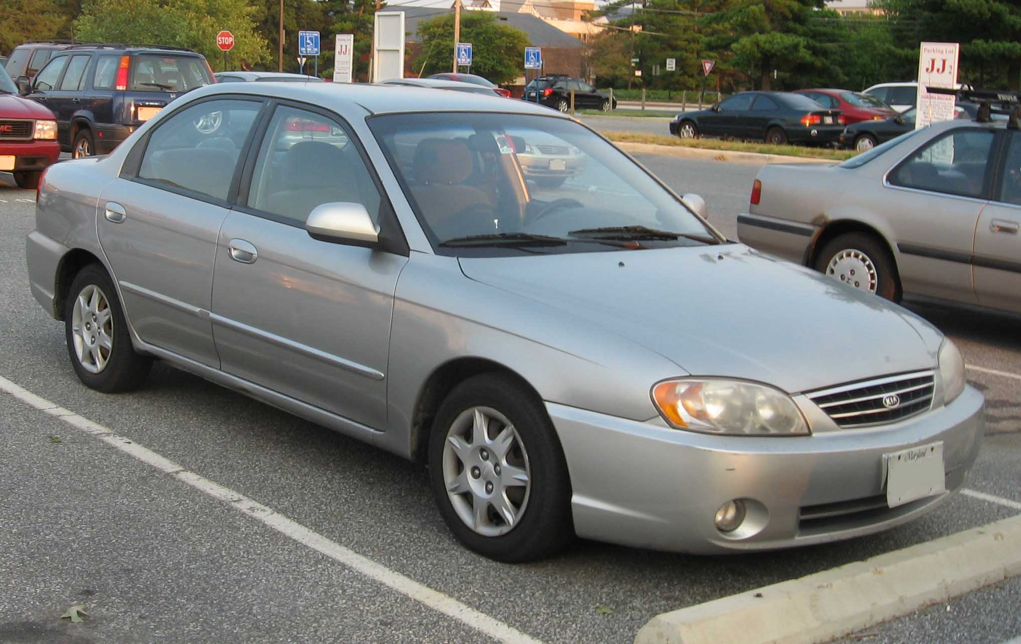 2001-2004 Kia Spectra photographed in USA.